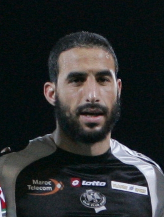 Raja Casablanca